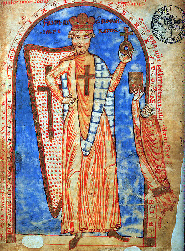 Frederick I, Holy Roman Emperor as crusader. Dedicatory image from a manuscript of Robert the Monk's Historia Hierosolymitana (Vat. Lat. 2001, dated ca. 1188).